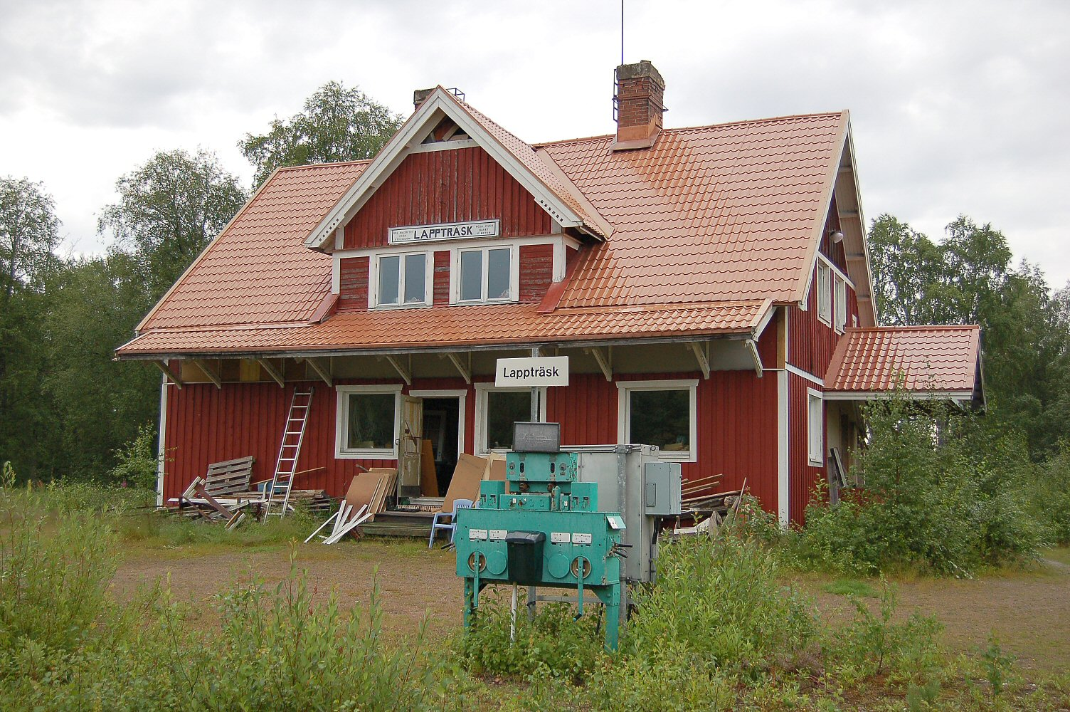 Lappträsk railway station on Haparandabanan (Boden—Haparanda) in Sweden.